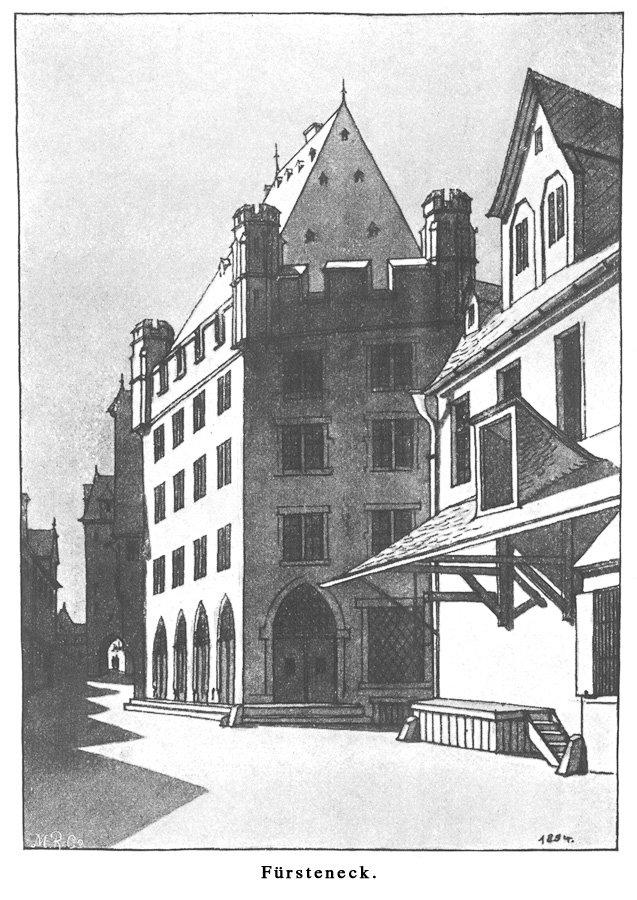 Frankfurt on the Main: House Fuersteneck in its medieval state before 1791 as seen from the Fahrgasse (Fahr Lane) to the south at the location of the Mehlwaage (Meal Scales, truncated to the right), in the very background to the left the northern bridge tower of the Alte Bruecke (Old Bridge)